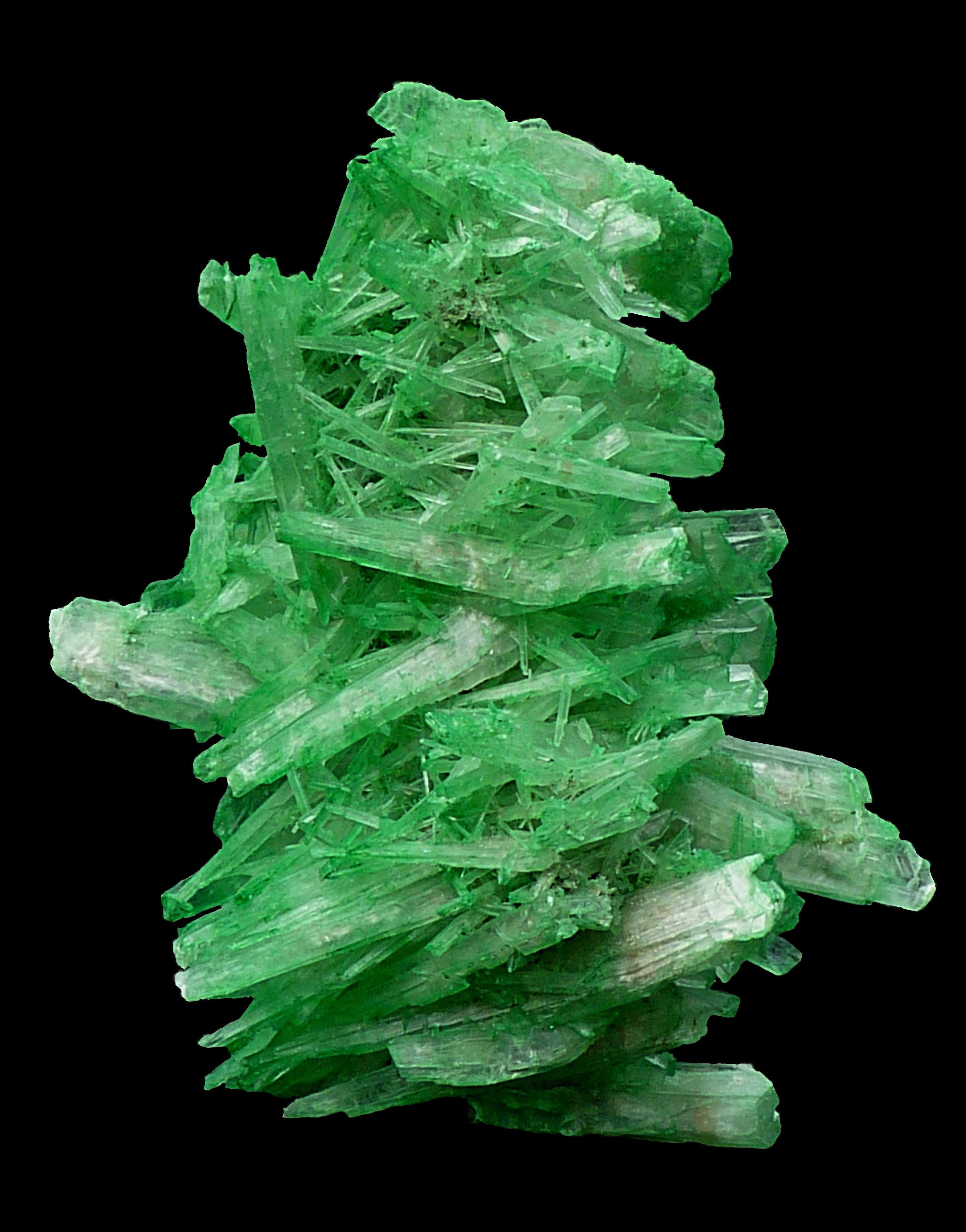 Gypsum. Origin: Swan Hill, Victoria, Australia. 11,5 x 8 x 7 cm. Picture taken in Belgium The colouring is due to the copper oxide.